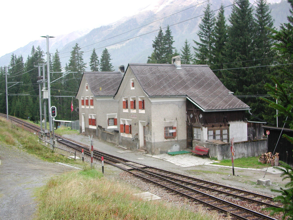 Carolina. Train station. Rhaetian Railway, Switzerland.